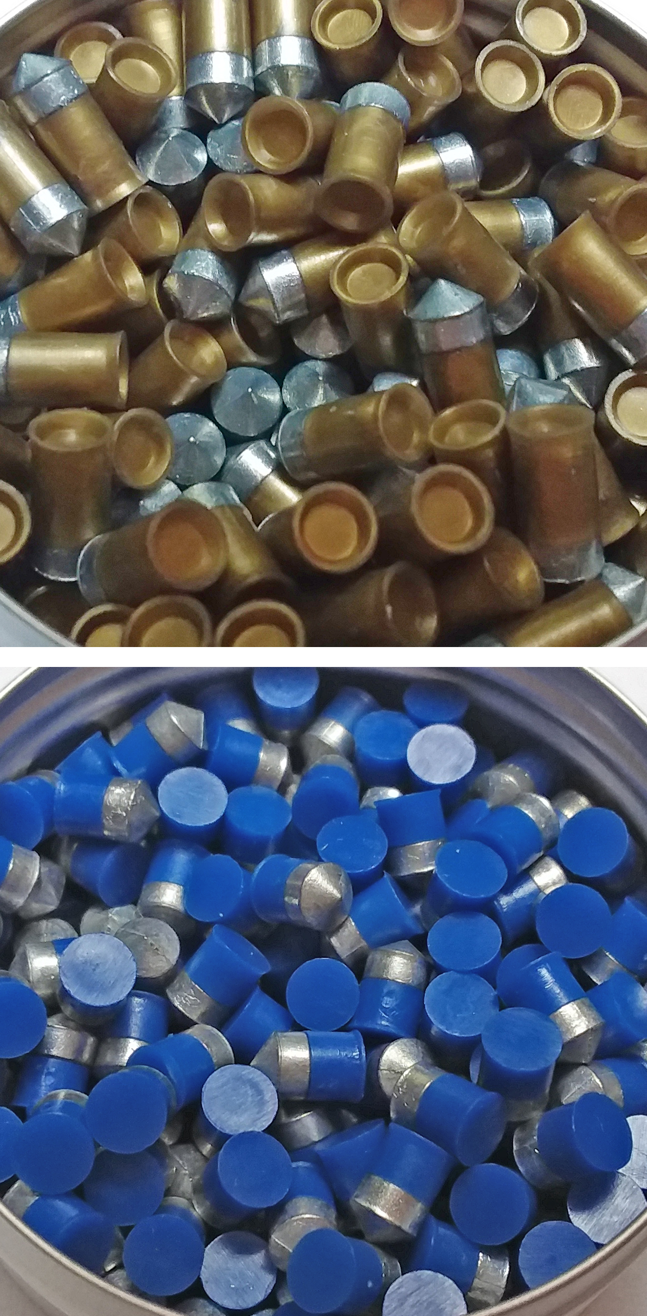 Pellets for an Air gun. Cal. 4,5mm (.177). Plastic coated with a core of pointed hard metal. Top: Long version for guns, bottom: short version for CO2-pistols